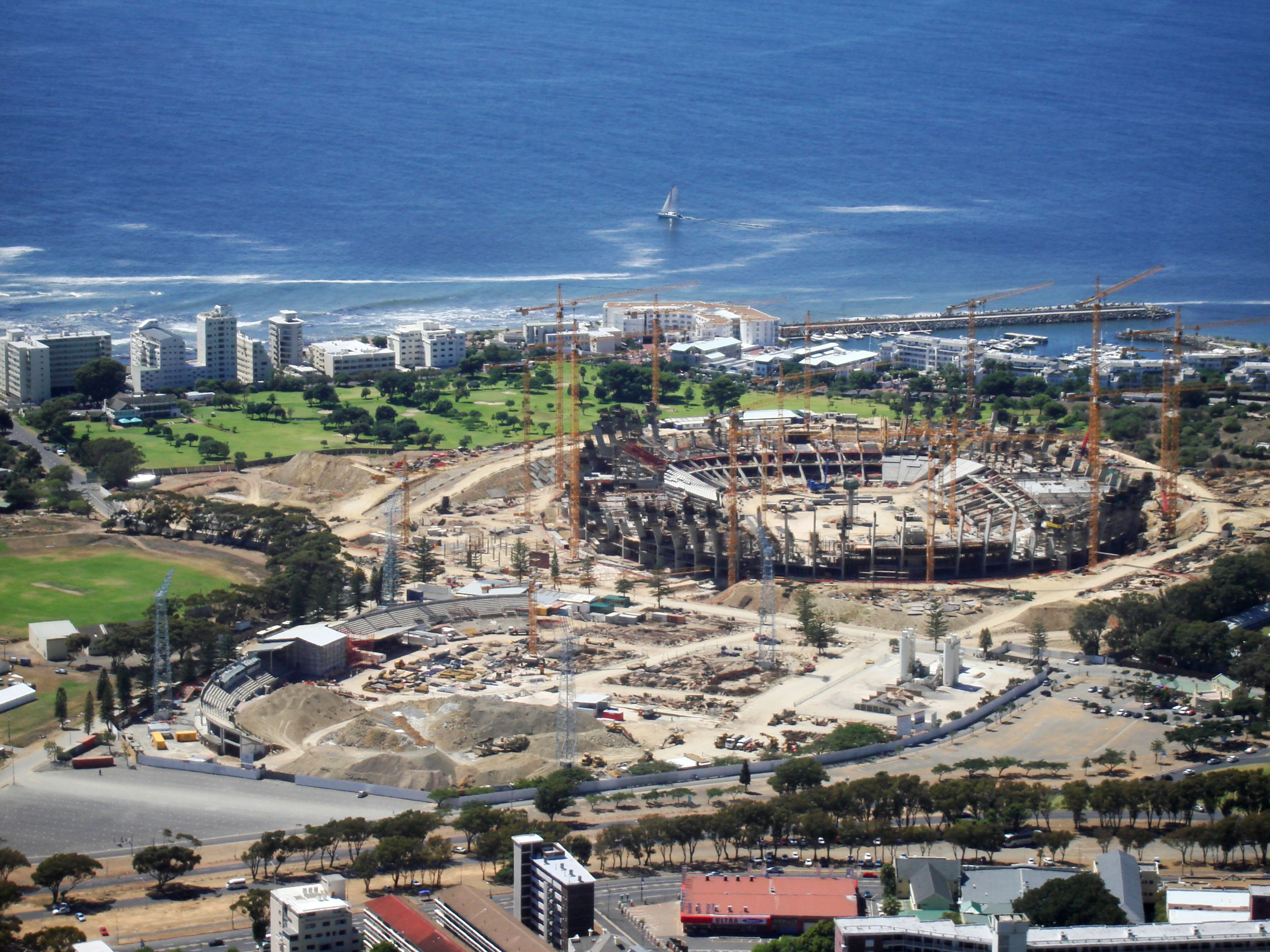 Panorama of Green Point Stadium, taken in March 2008